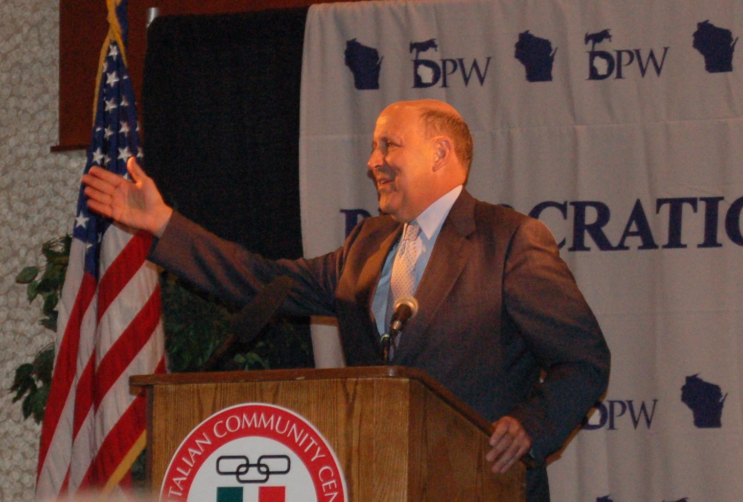 Wisconsin governor Jim Doyle